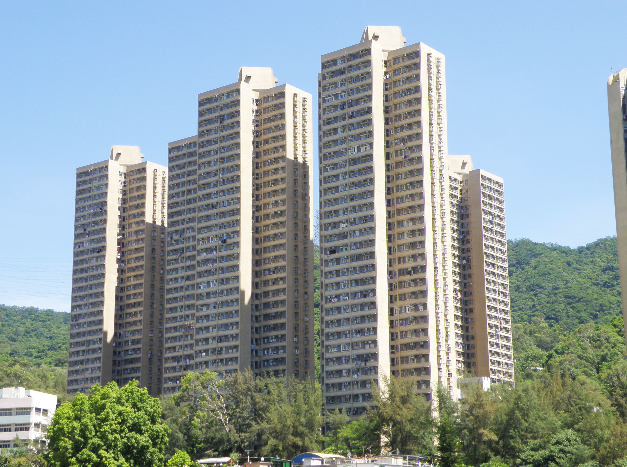 Ka Tin Court in Hin Keng, Hong Kong.